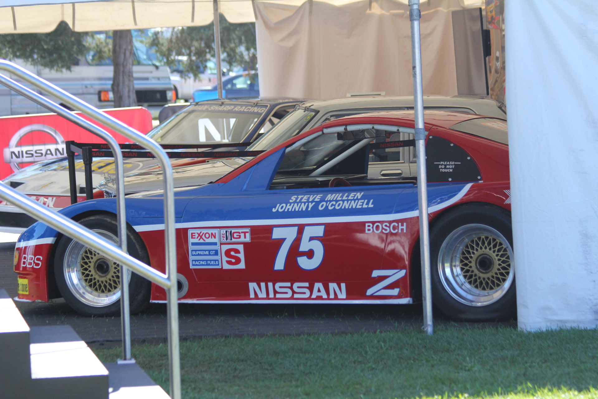 A vintage IMSA race car driven in the 1990s by Steve Millen and Johnny O'Connell on display at a Nissan showcase at the 2013 SCCA National Runoffs.